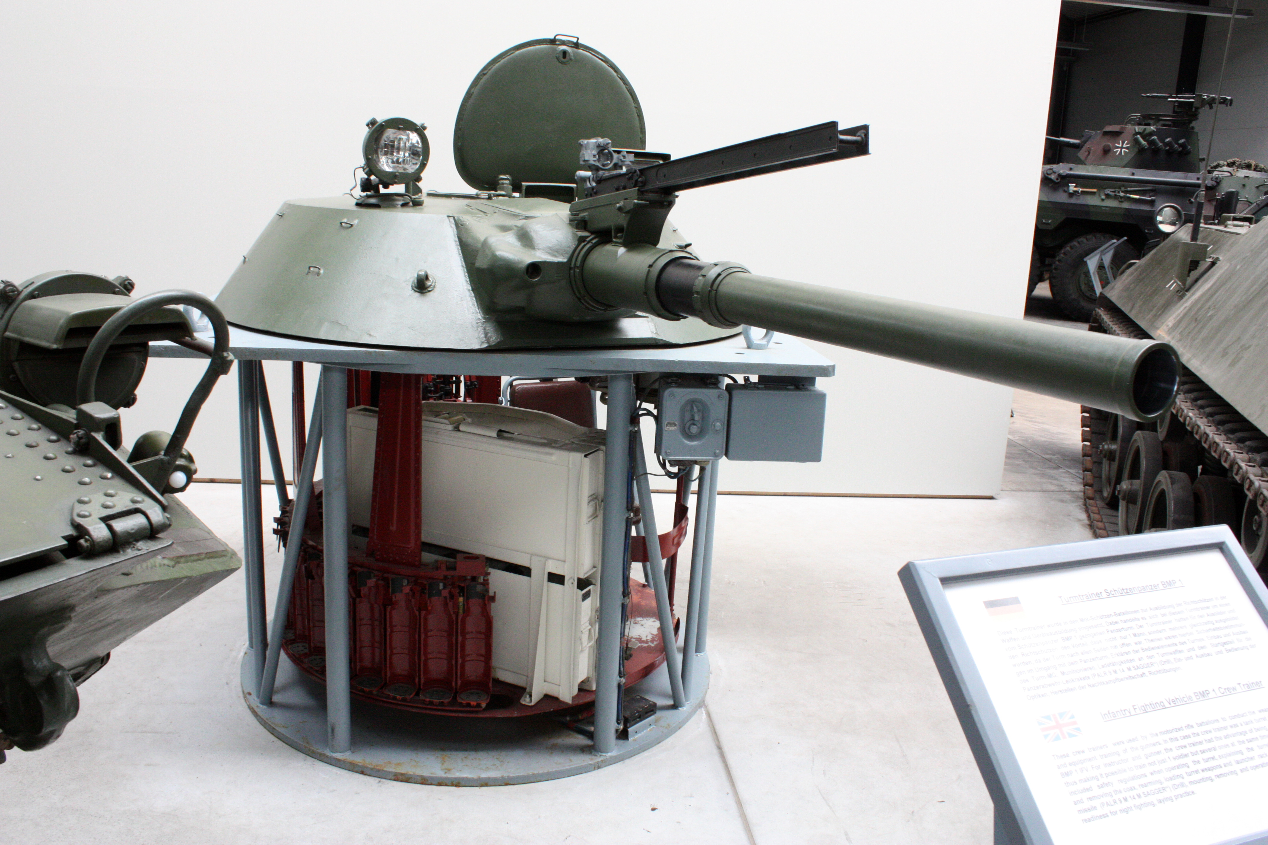 German Tank Museum